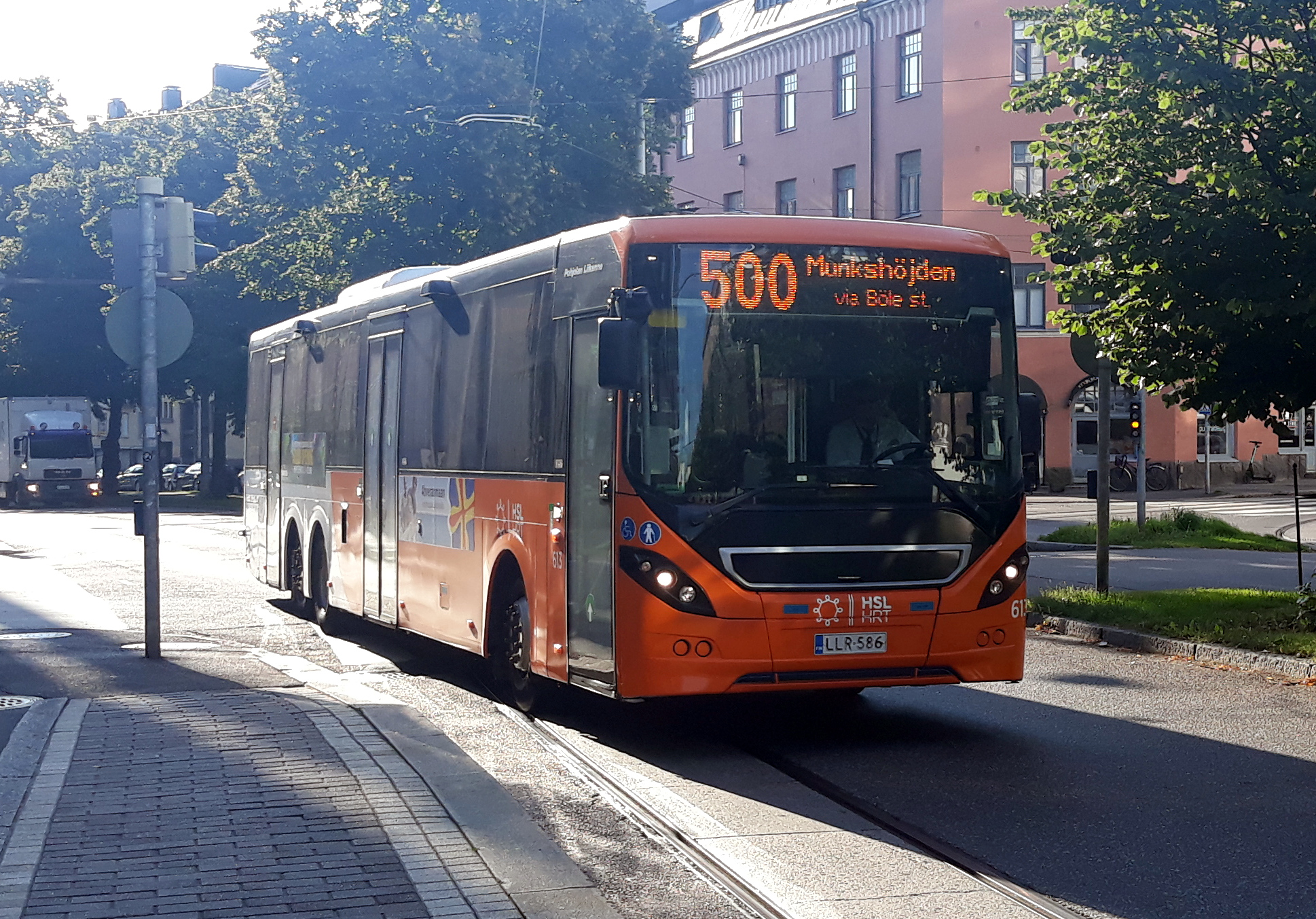 Trunk line 500 bus (Volvo 8900LE, operated by Pohjolan Liikenne) on Aleksis Kiven katu, Helsinki.